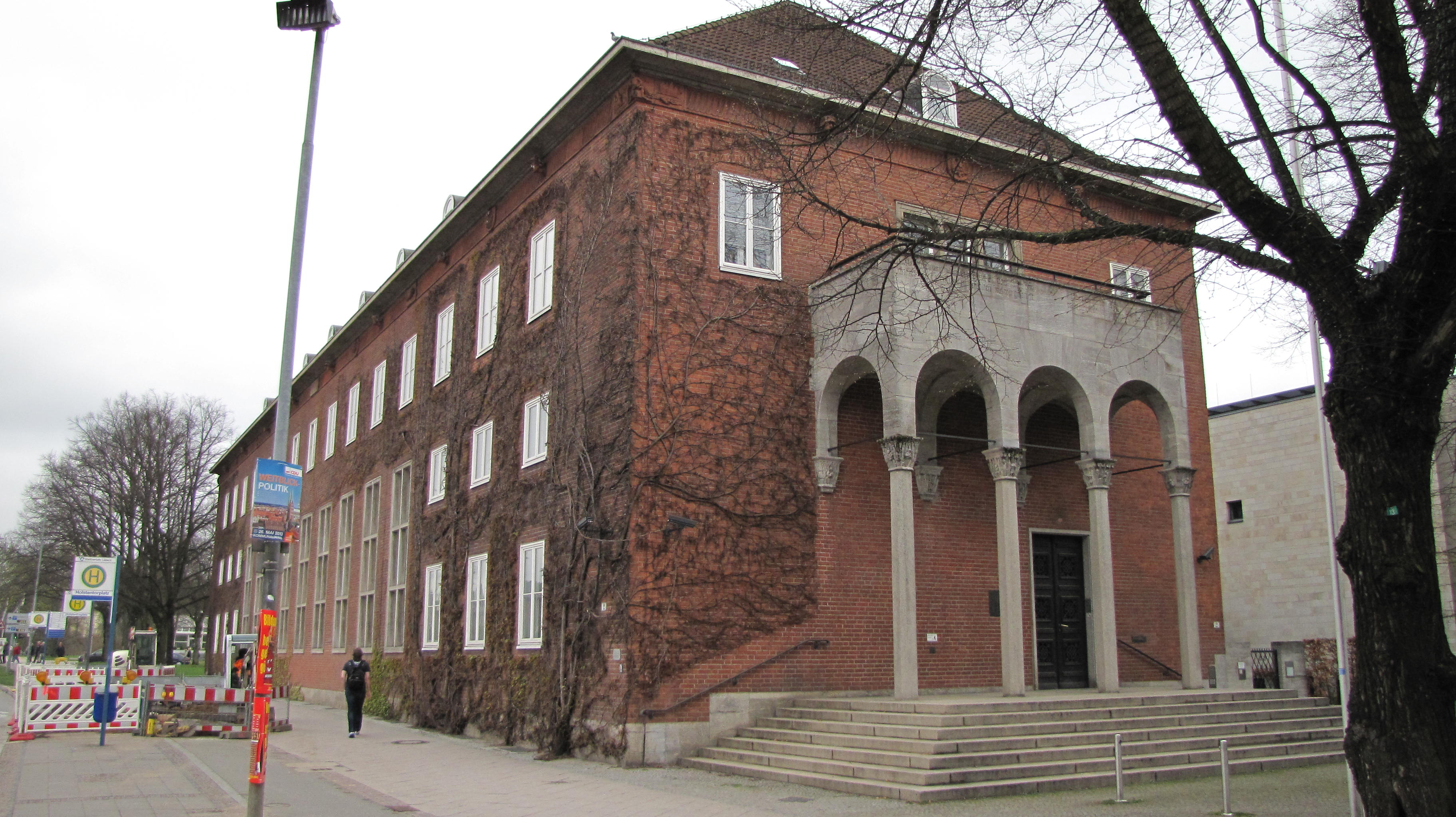 Bundesbank branch in Lübeck, Holstentorplatz, built 1934-1936